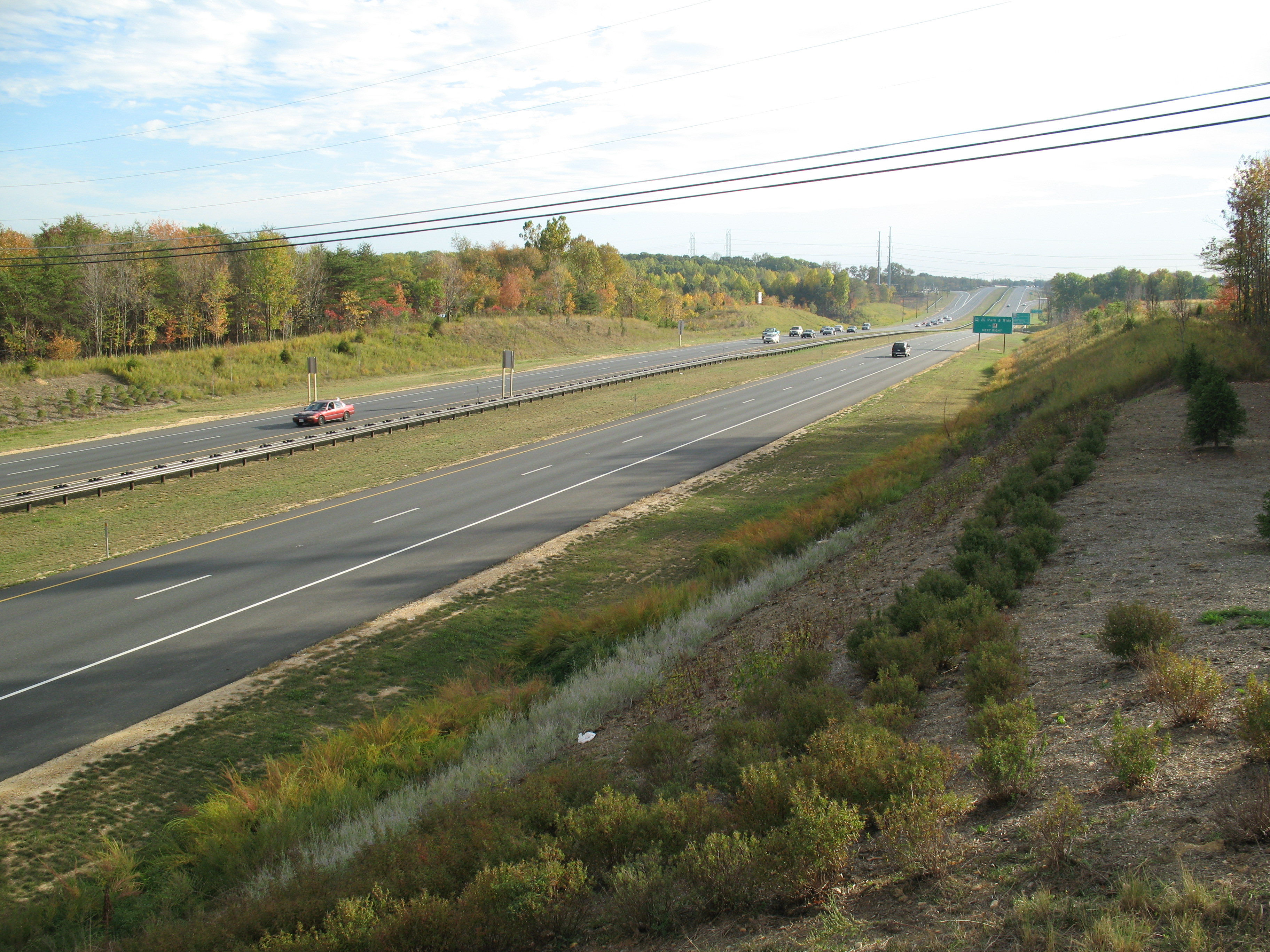 US 29 (Columbia Pike) viewed from Dustin Road, Burtonsville, MD, USA - OpenStreetMap(Info)